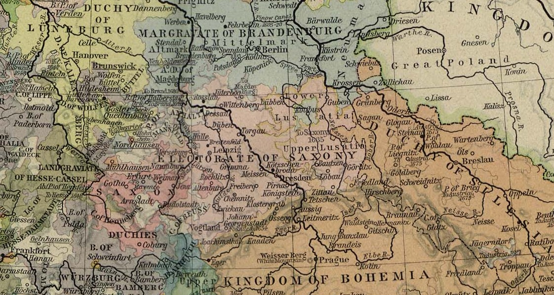 Source: [ Central Europe about 1648 - Historical Atlas by William R. Shepherd - Perry-Castañeda Library Map Collection]